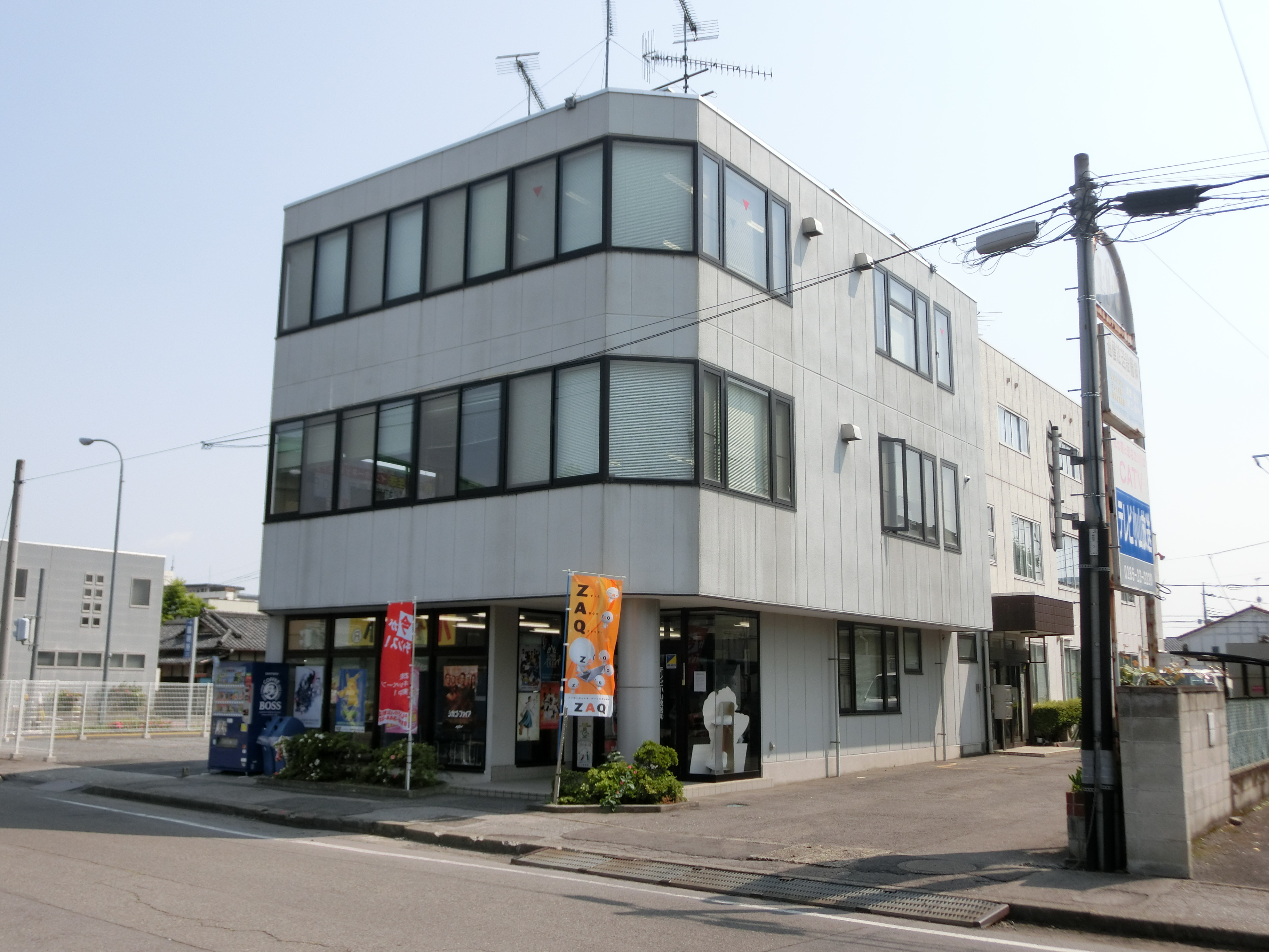 TV Oyama Head Office